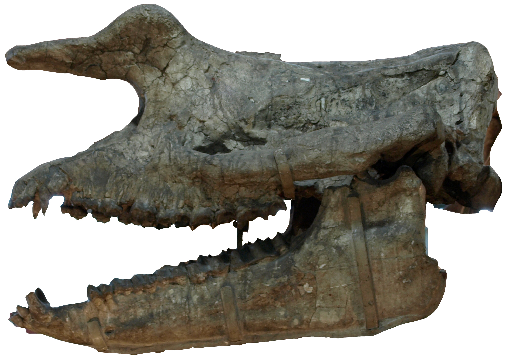 Skull of a Rhinotitan mongoliensis on display at the Paleozoological Museum of China (background knocked out for clarity).